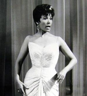 A cropped photo of Lena Horne performing on The Bell Telephone Hour television show in 1964.